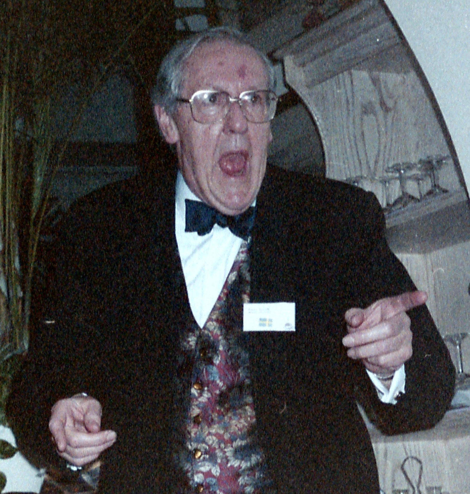 Brian Aldiss, science fiction writer, singing a song.